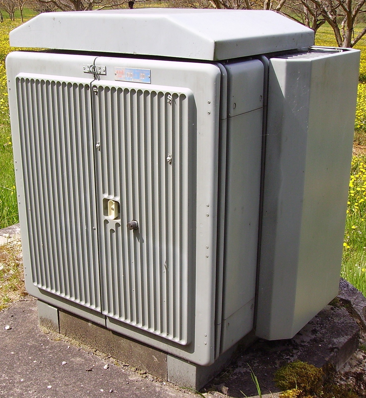 High-voltage transformer (primary voltage: 20 kV); power: 100 kVA.